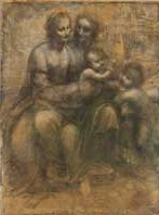 The Virgin and Child with Saint Anne and Saint John the Baptist